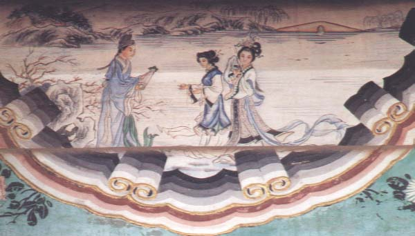 Picture on long veranda in the Summer Palace, Beijing, China. It pictures a schene from the "Legend of the White Snake" in China.